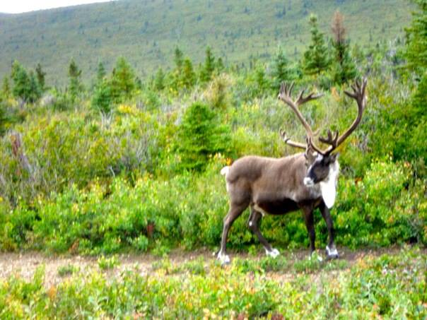 Male caribou with full antler rack, Fort Greely, Alaska